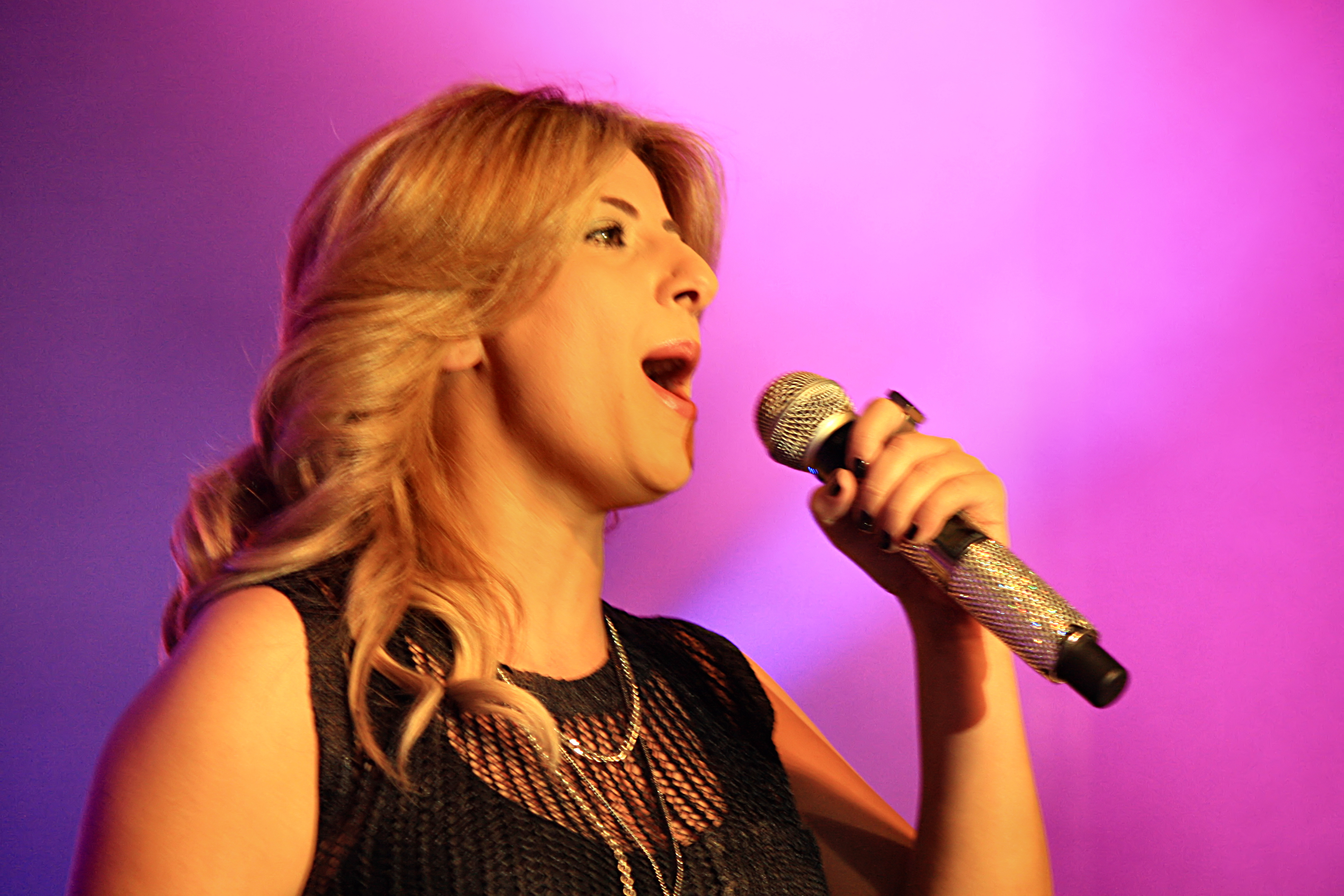 Sarit Hadad.